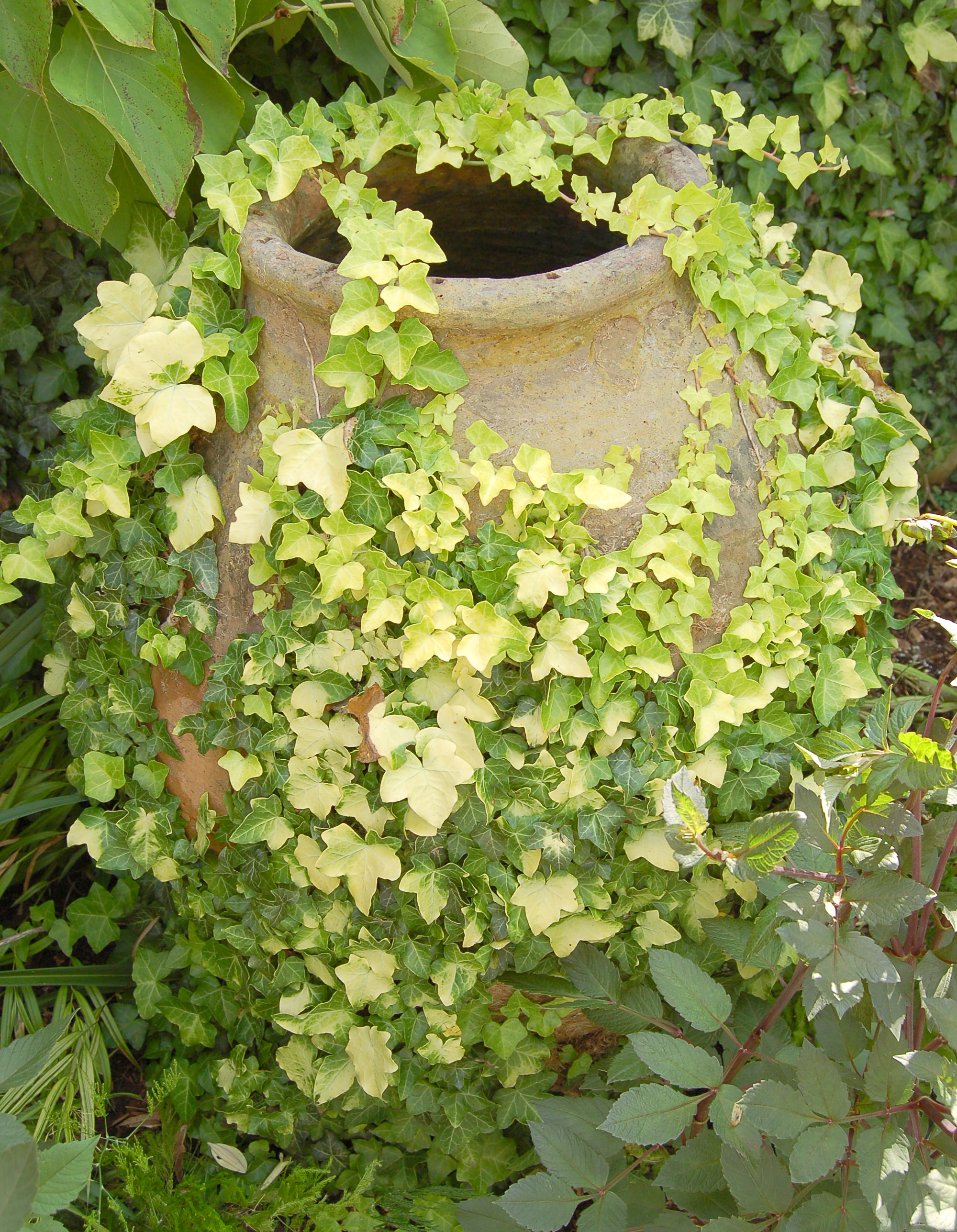 A picture of Variegated English Ivy — (Hedera helix en 'Buttercup') plant growing on garden urn. Photo taken at the Chanticleer Garden in Pennsylvania, where it was identified.